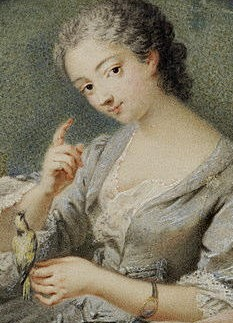 Jeune femme au perroquet, after Jean-Baptiste Van Loo. Presumed portrait of Jeanne Agnès Berthelot de Pléneuf, marquise de Prie. Unknown location.